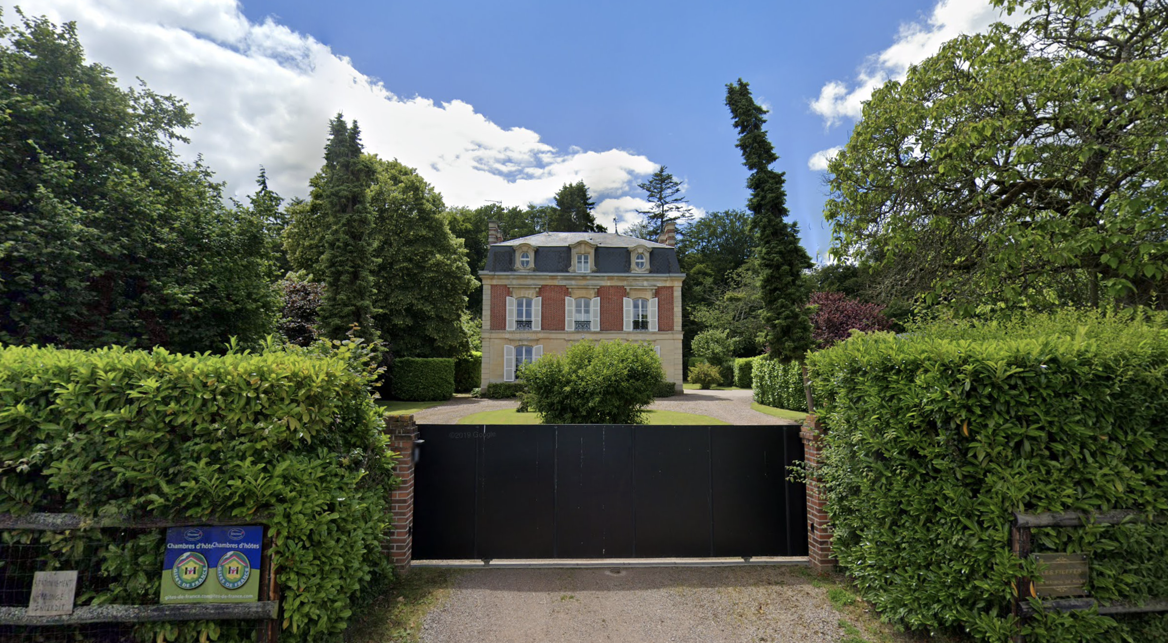 This picture represents the Manor of Silly from the Verbeke Brethenoux Family.